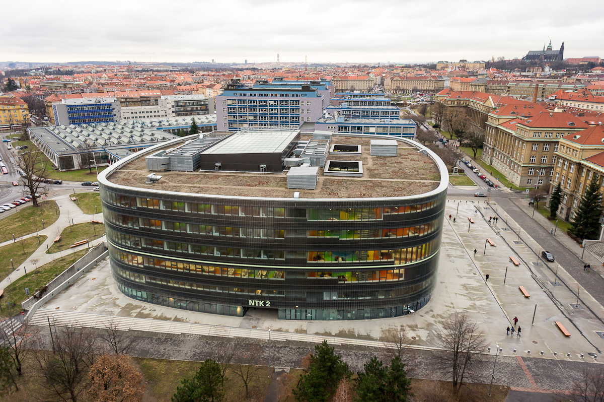 NTK – National Technical Library of the Czech Republic in Prague